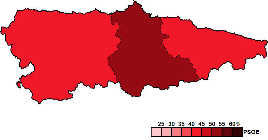 District results for the 1983 Asturian regional election.